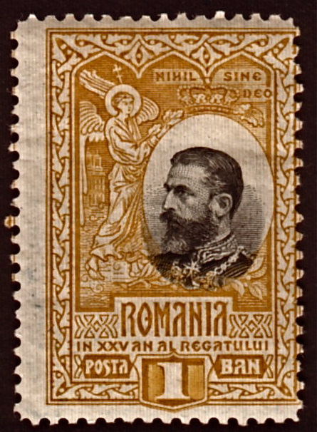 Romanian stamp showing King Carol I, face value 1 ban. Issued to mark the 25th anniversary of the establishment of the Kingdom of Romania.